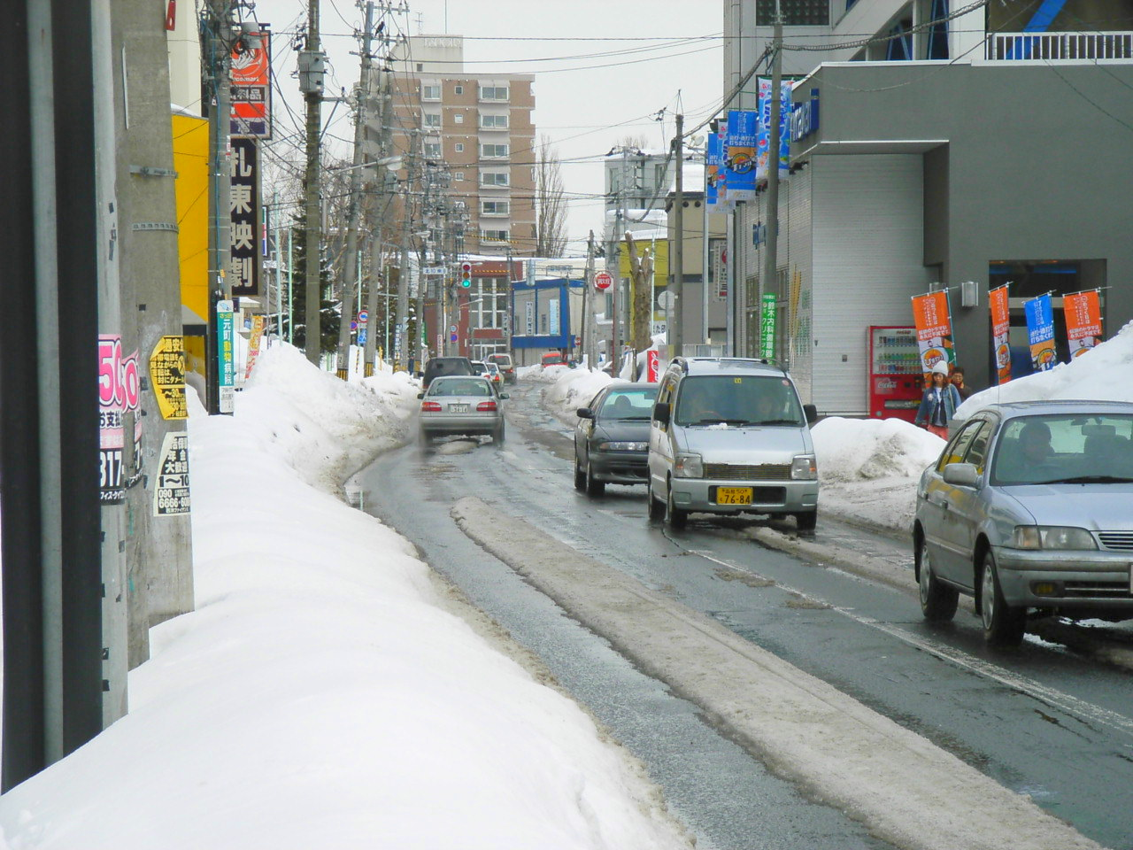 Hokkaido Prefectural Road 273 Bannaguro-Sapporo Line